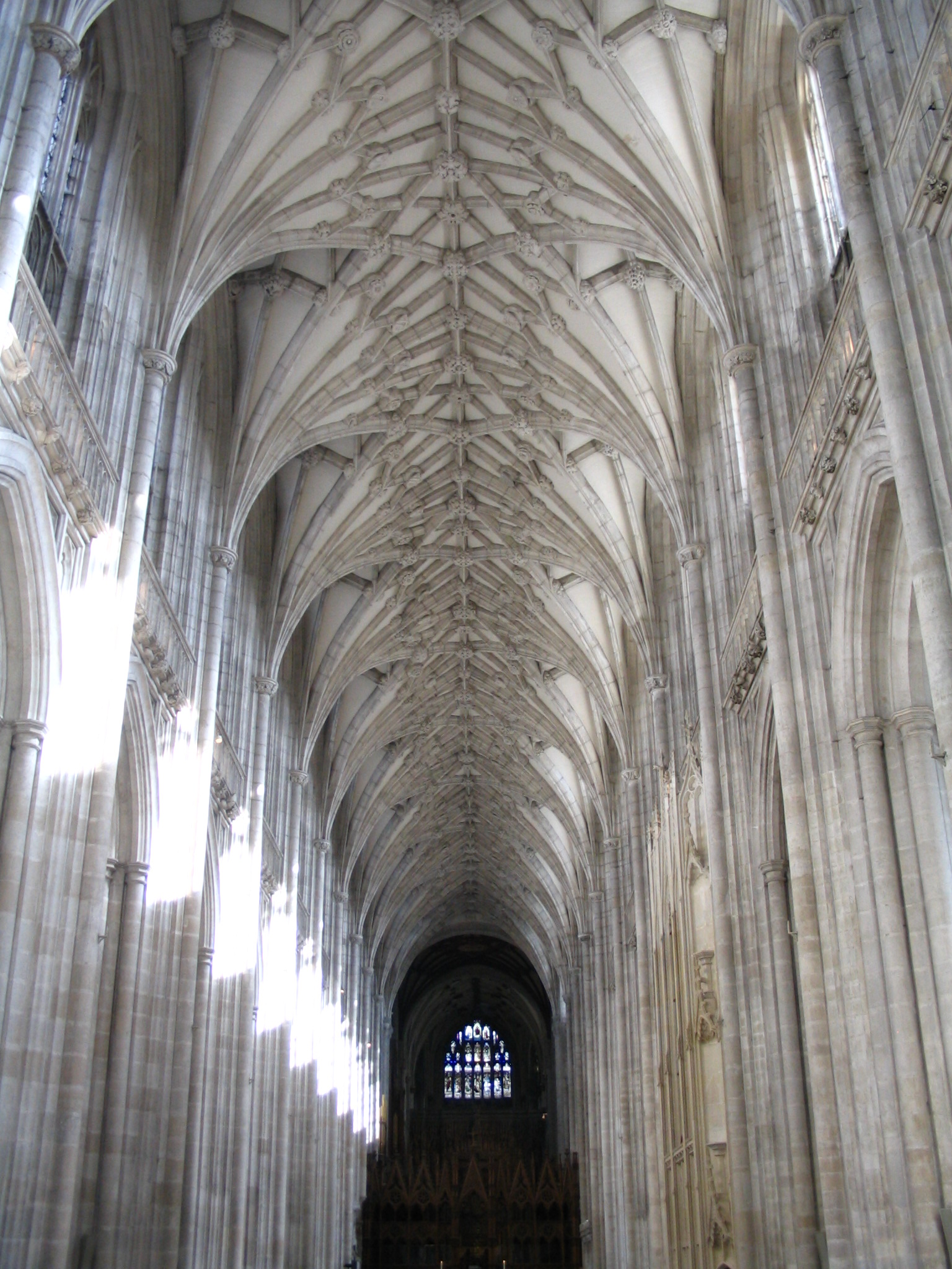 Winchester Cathedral, England, showing the Gothic nave and lierne vaulting of the roof.